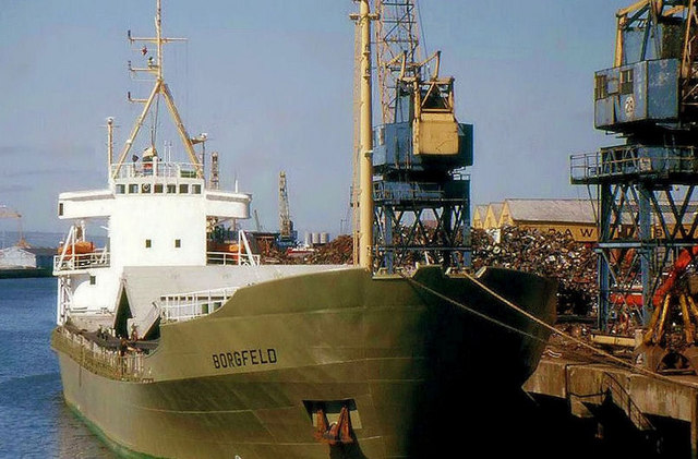 The "Borgfeld" at Belfast The coaster “Borgfeld” had loaded scrap at Queen’s Quay.